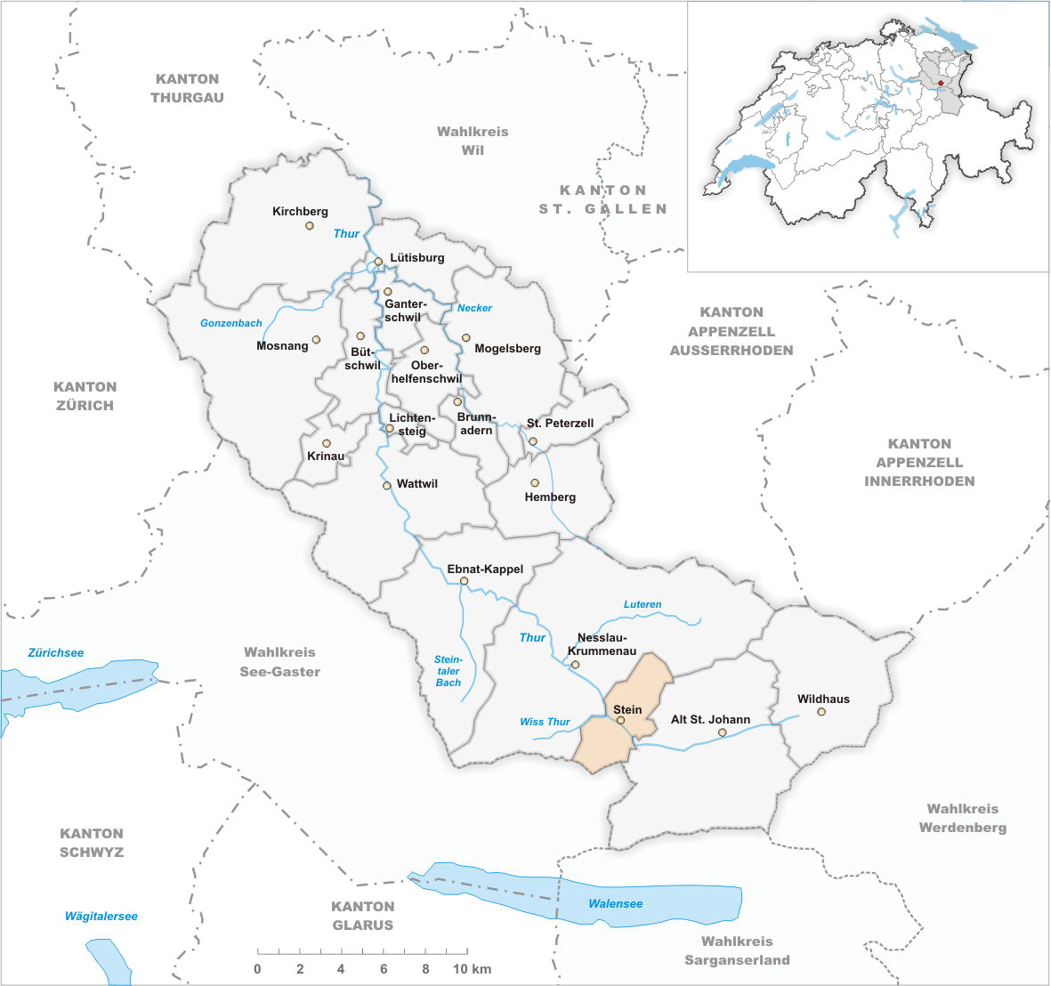 Municipality Stein